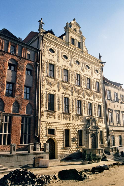 Dąmbskis (or Cuiavian Bishops) Palace in Toruń